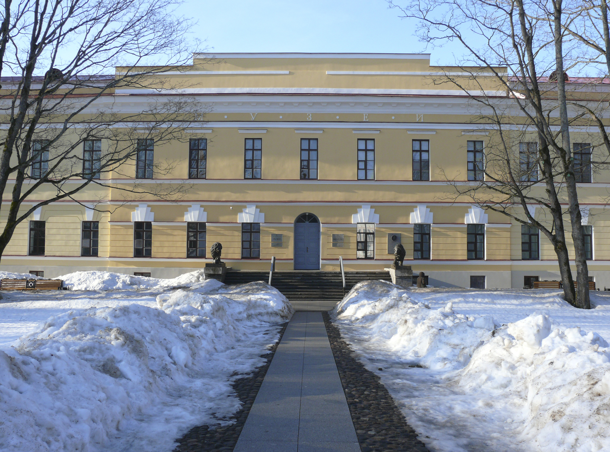 The Museum of history of Veliky Novgorod, front façade seen from the bronze monument.